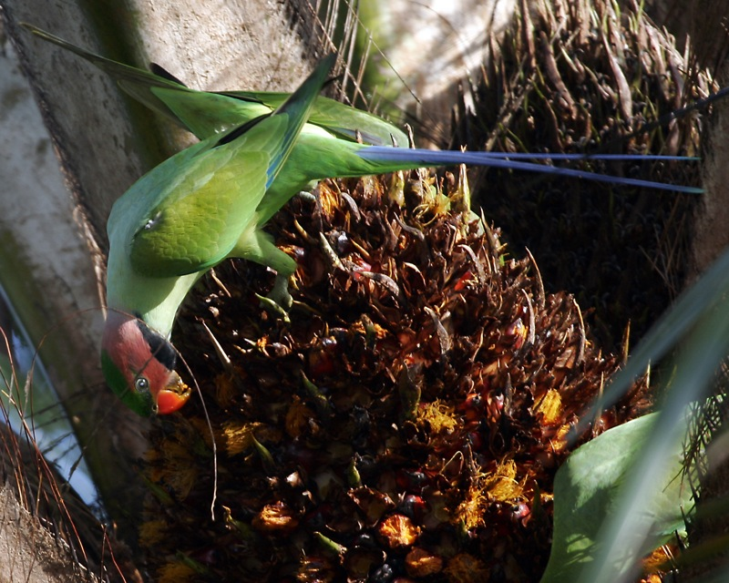 Long-tailed Parakeets (Psittacula longicauda longicauda) feeding in Queenstown, Singapore on 2 December 2005.